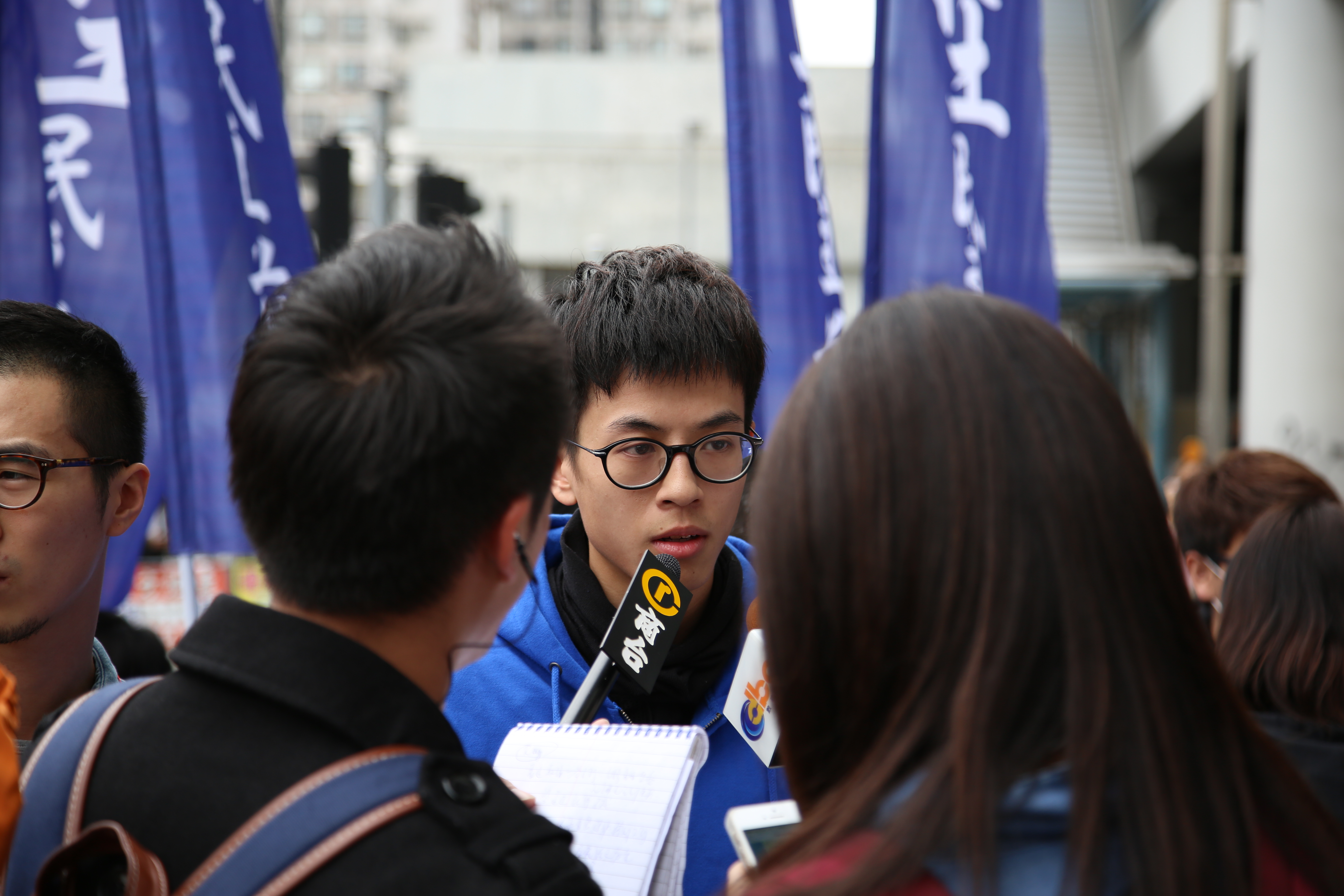 Wong Toi Yeung, Ray